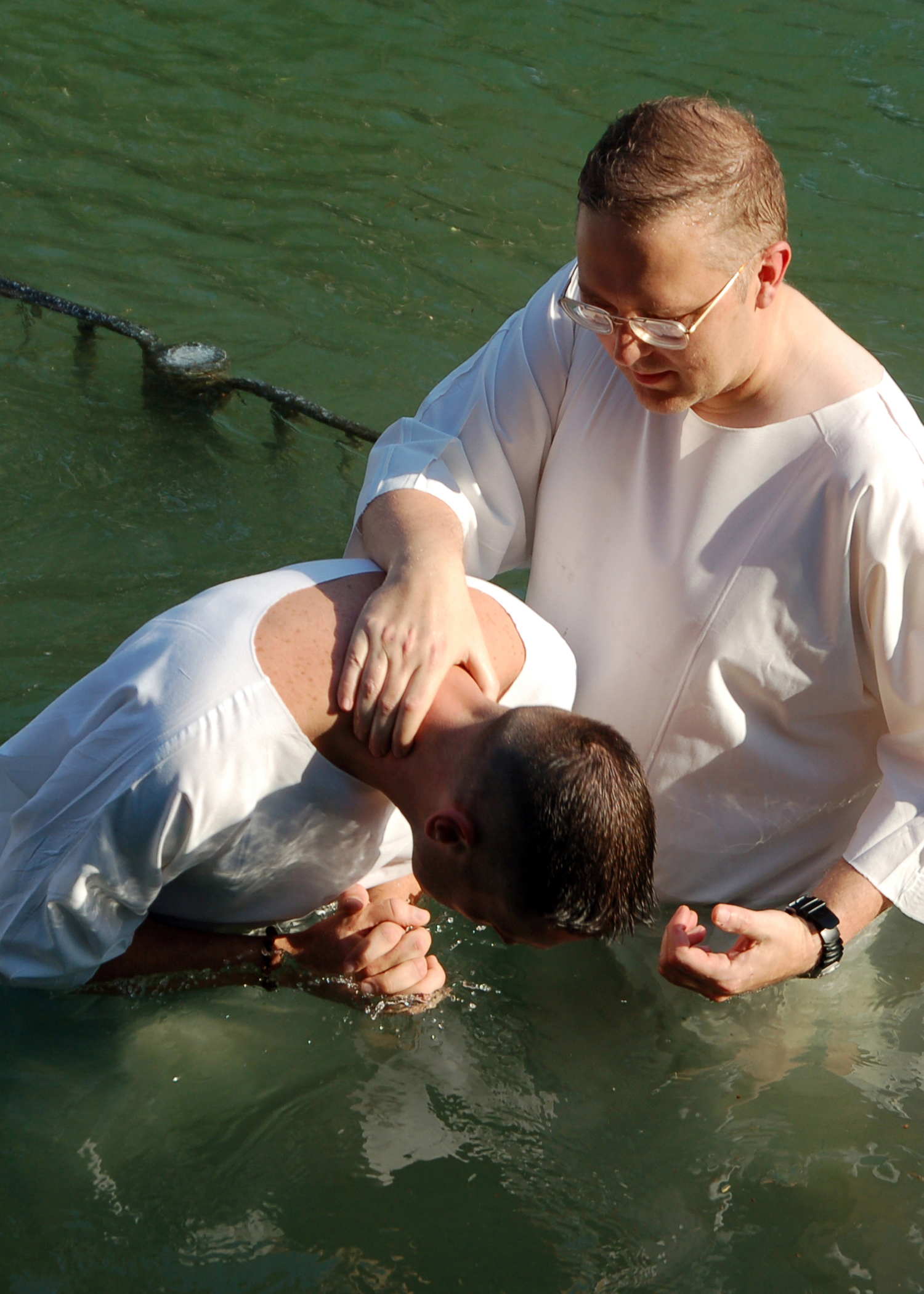 Jordan River, ISRAEL (Sept. 15, 2008) Cmdr. Jonathan Smith, command chaplain for the amphibious assault ship USS Iwo Jima (LHD 7), baptizes Senior Chief Hospital Corpsman Brian Wenzel in the Jordan River. Sailors and Marines assigned to the Iwo Jima Expeditionary Strike Group were baptized during a tour of Nazareth, Israel, and the Jordan River. Iwo Jima is deployed as the flag ship of the Iwo Jima Expeditionary Strike Group supporting maritime security operations in the U.S. 5th and 6th Fleet areas of responsibility. (U.S. Navy photo by Chief Mass Communication Specialist Scott B. Boyle/Released)